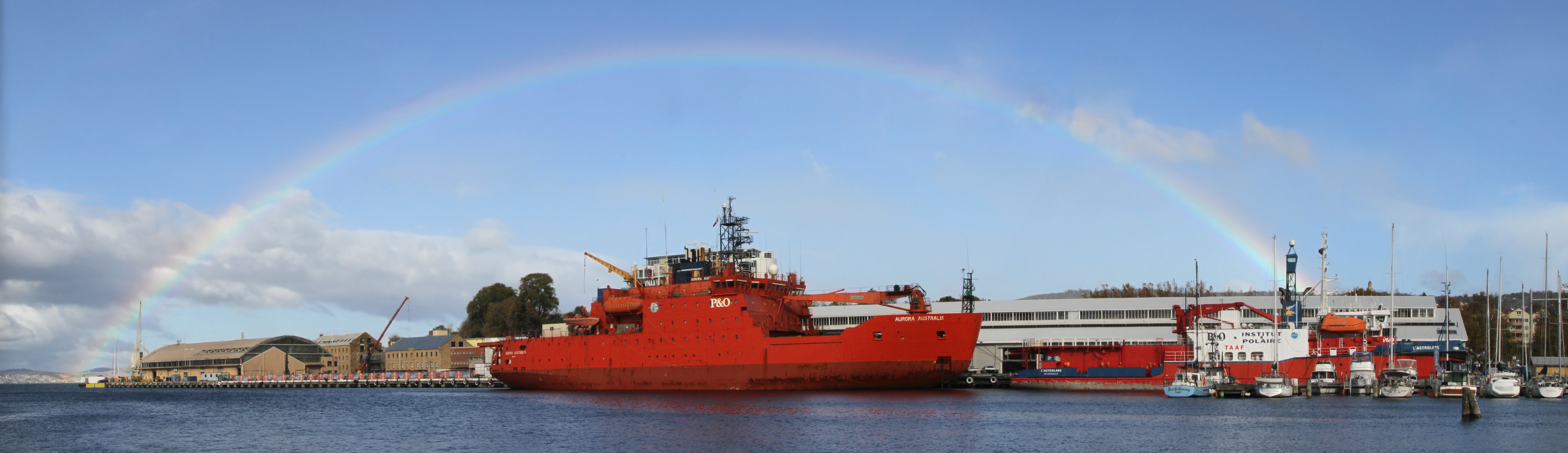 The Australian Antarctic Division's icebreaker, the Aurora Australis, berthed in Hobart, Tasmania, Australia, under a rainbow. The French Antarctic vessel, L'Astrolabe, can be seen behind some yachts to the right of the Aurora Australis.